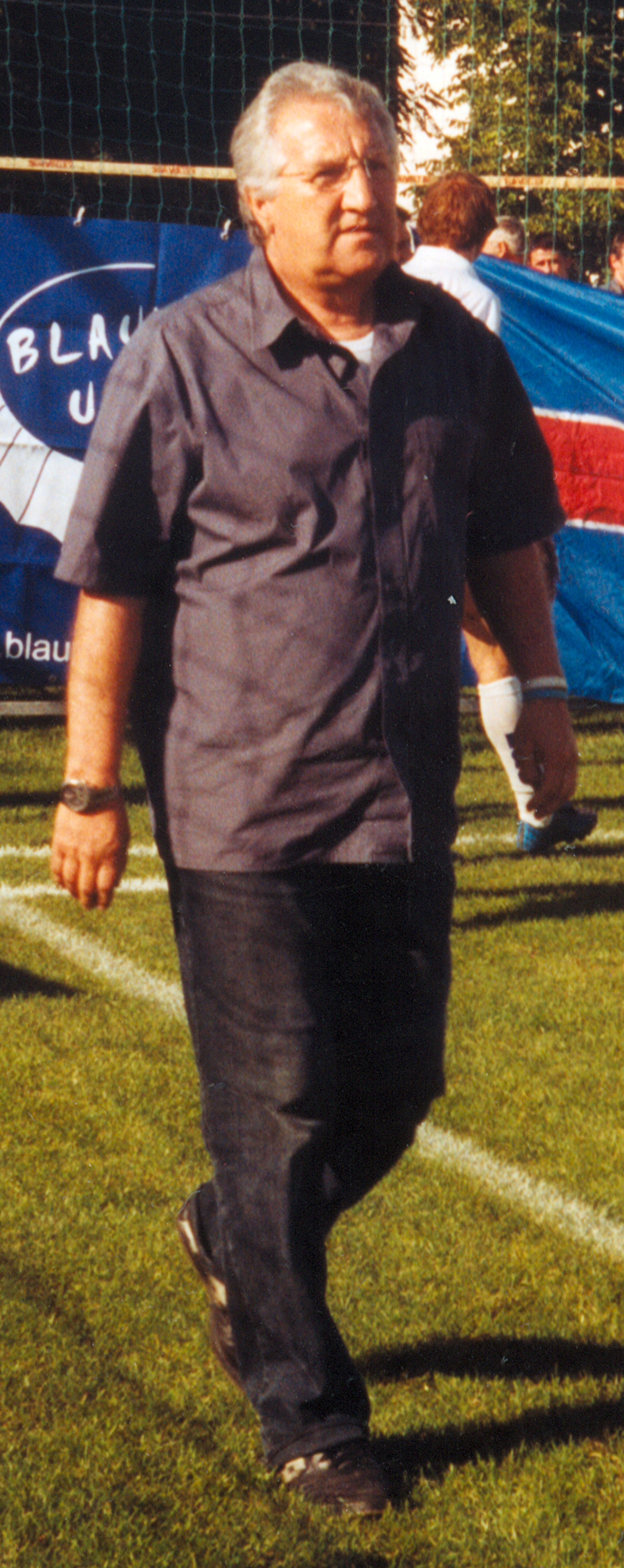 Adolf Blutsch as manager of FC Blau-Weiß Linz just before the third-level ("Regionalliga Mitte") football match between SAK Klagenfurt and the blue-and-whites from Linz on 10 September 2005